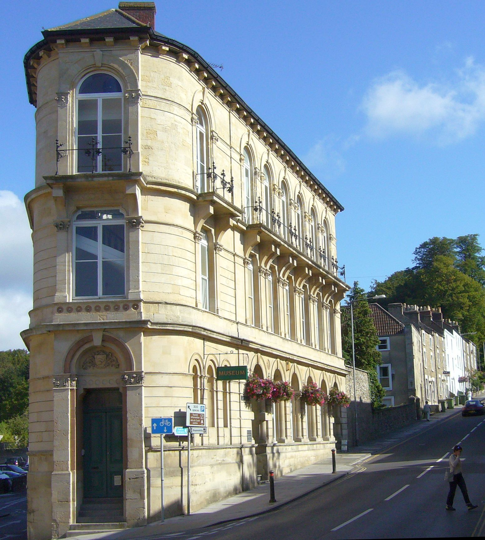 The museum on North Parade in Frome. Photographed in September 2007. Required attribution is: Photo by Tom Oates.